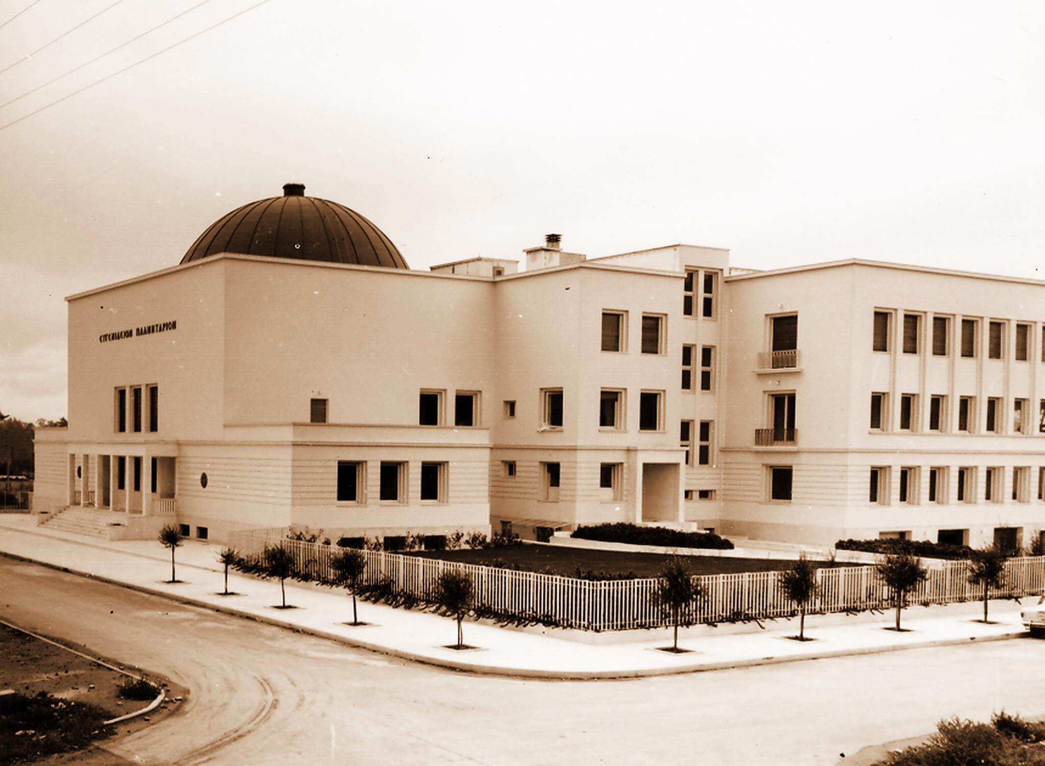 The entrance of the Eugenides Planetarium of Athens, Greece, at its completion in 1966.